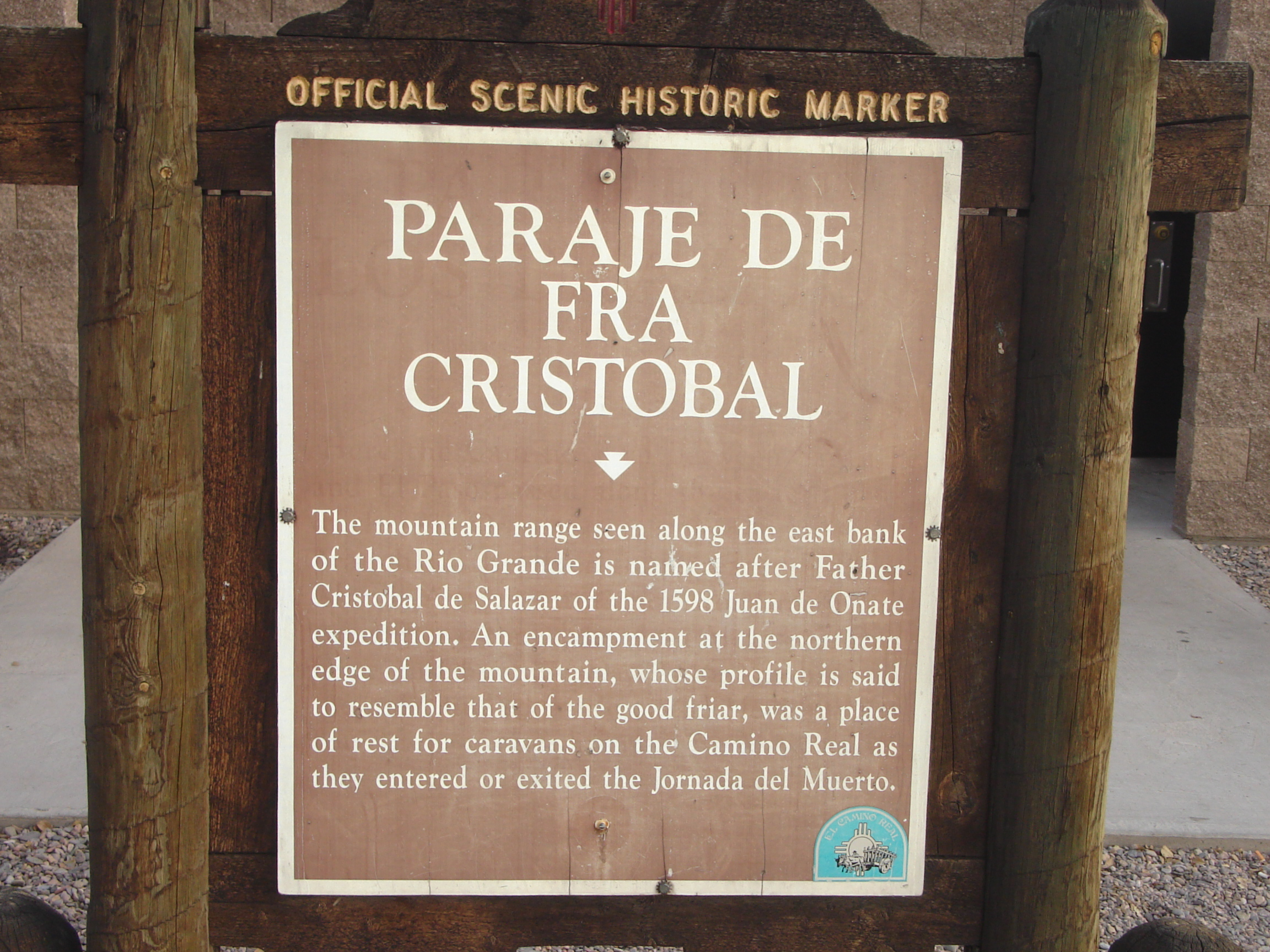 Official Scenic Historical Marker: PARAJE DE FRA CRISTOBAL